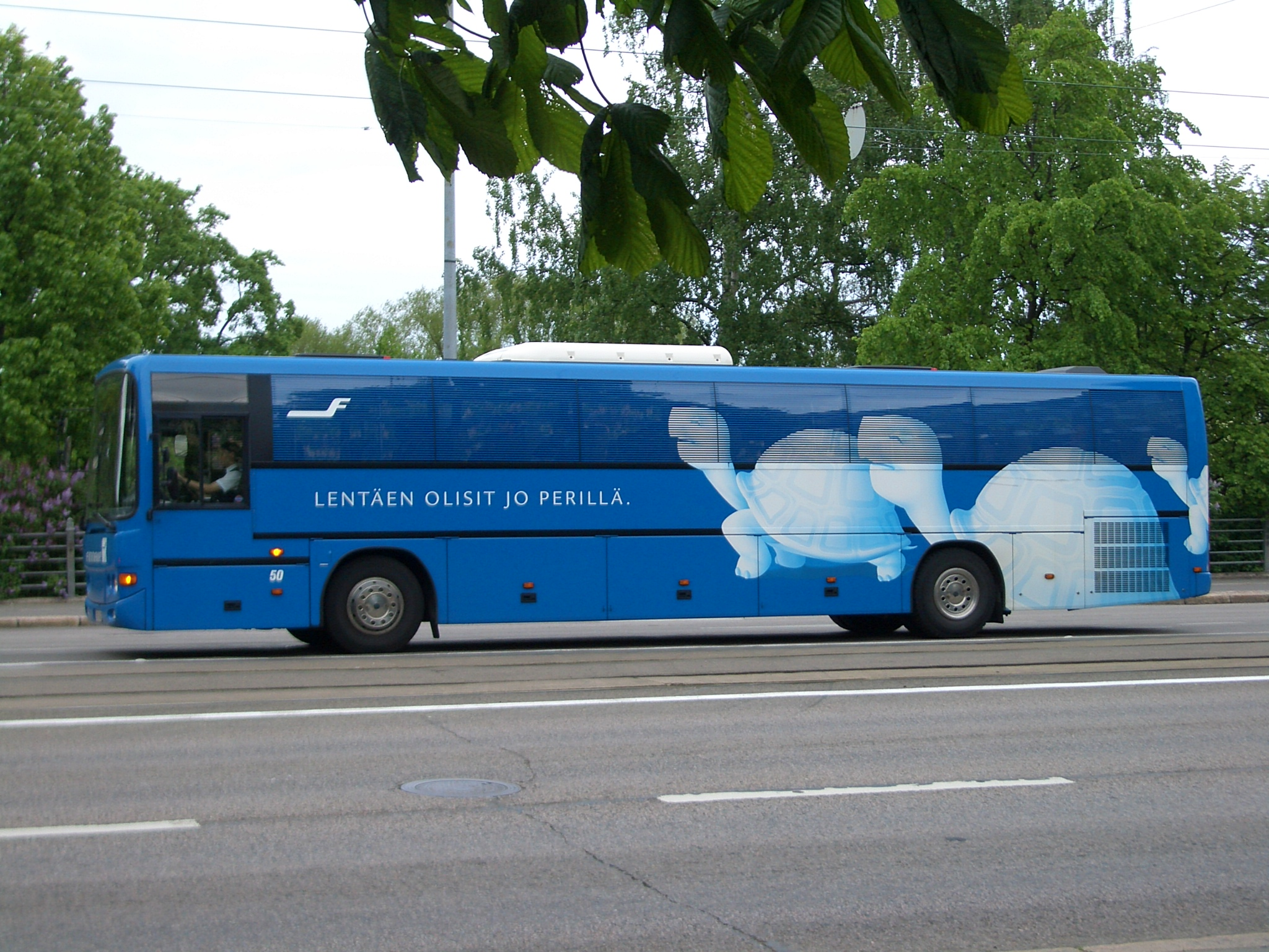 An airline bus in Helsinki carroes Finnair logo.